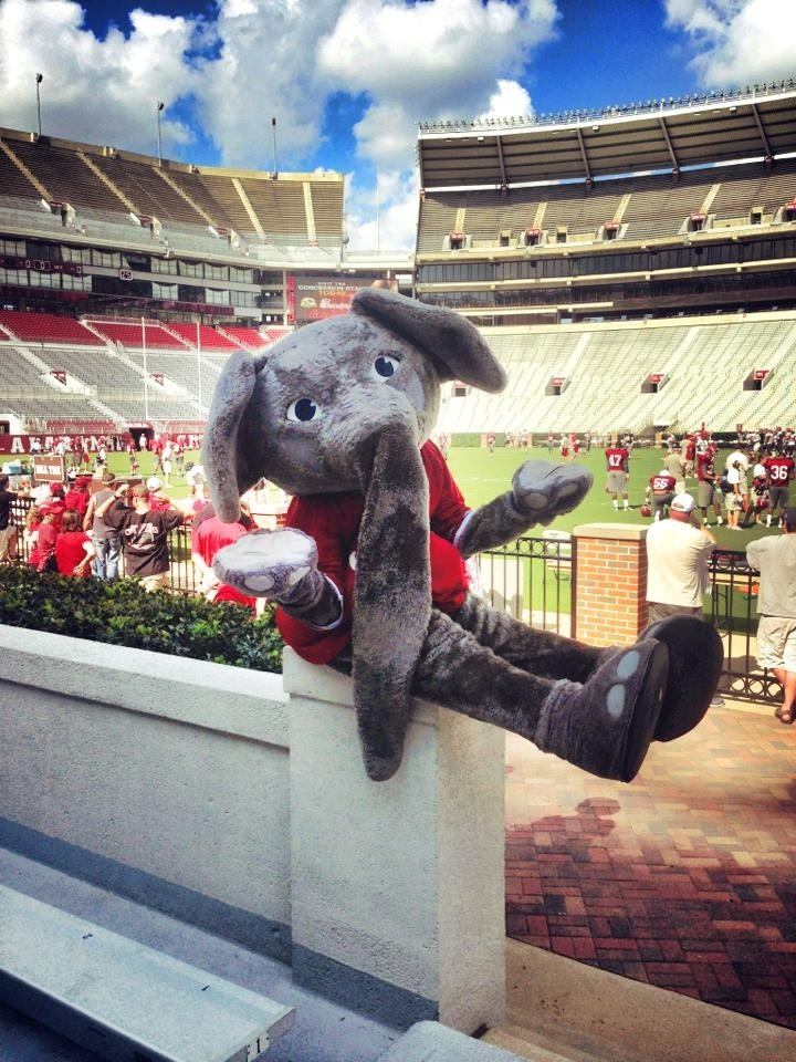 Picture of Big Al at Bryant Denny Stadium